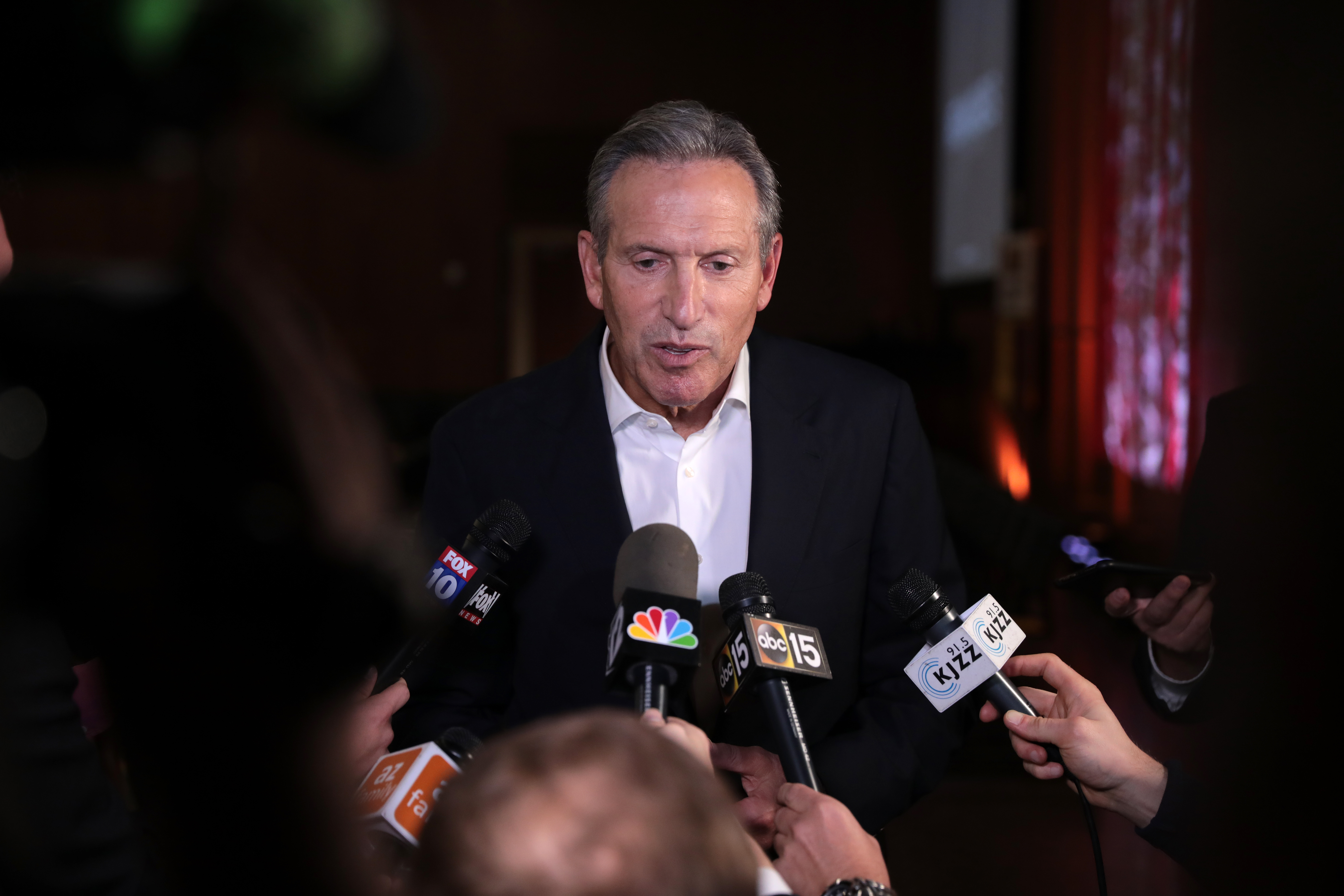 Howard Schultz, the former CEO of Starbucks, speaking with the media at an event titled "From the Ground Up" at the Student Pavilion at Arizona State University in Tempe, Arizona.